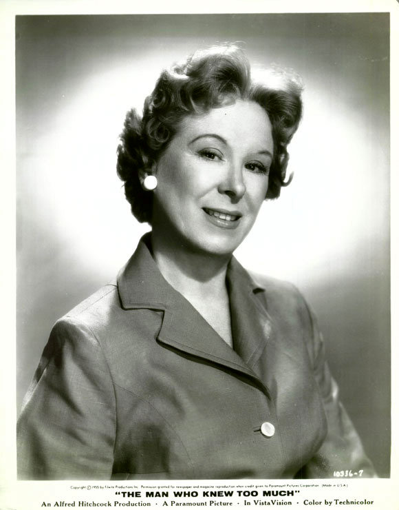 Studio publicity portrait of Brenda De Banzie for the American film The Man Who Knew Too Much